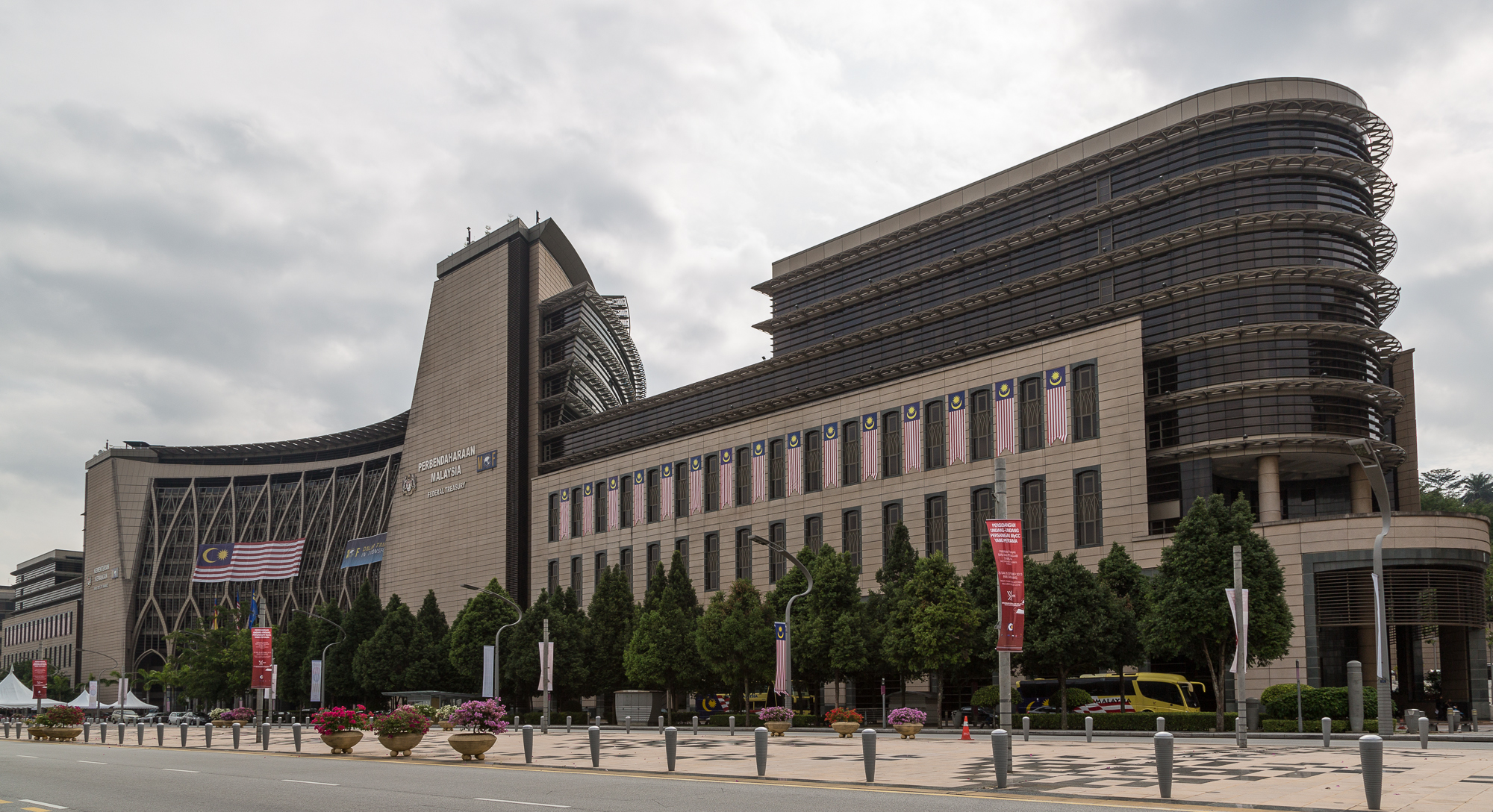 Putrajaya, Malaysia: Kementerian Kewangan (Ministry of Finance; MOF)